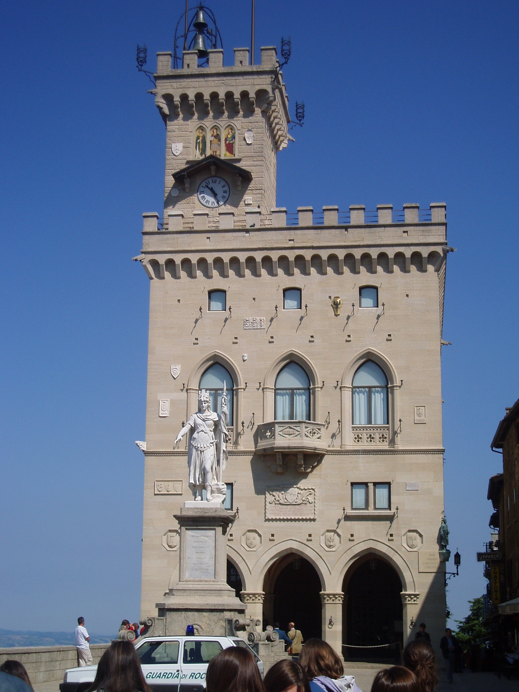 The Parliament Building of the Republic of San Marino, built in gothic-revival style, in 1884-1894, on a project by architect Francesco Azzurri.